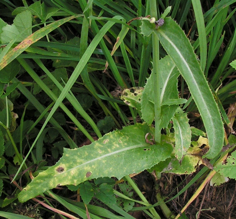 The leaves of Sonchus arvensis. Moscow region, Russia.